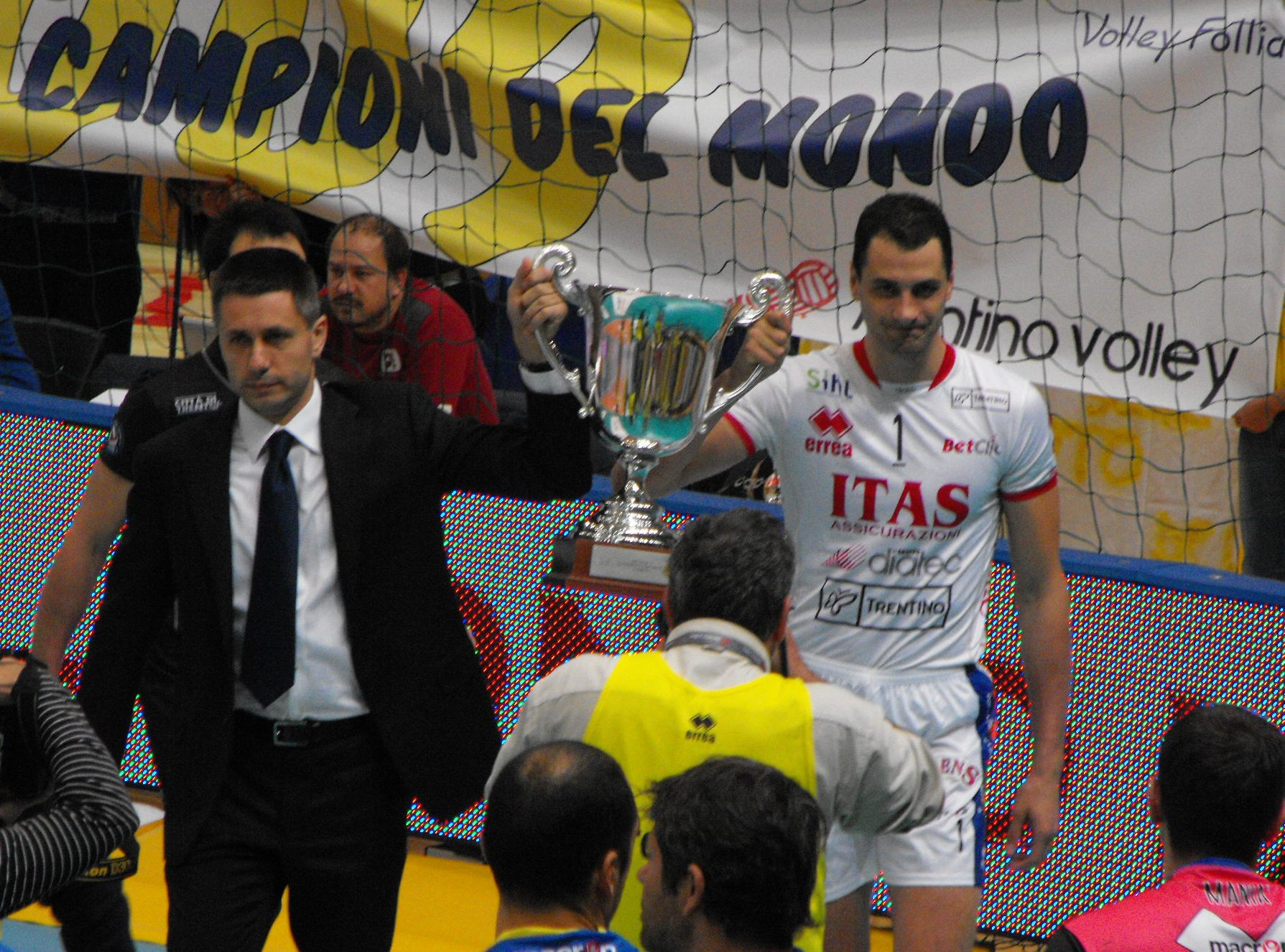 Radostin Stoytchev and Matey Kaziyski with the World Cup.